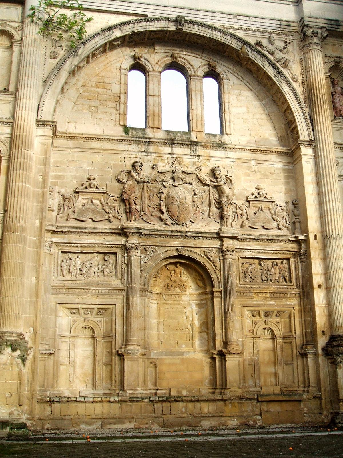 Retablo pétreo de la Capilla de los Benavides, iglesia del antiguo Convento de San Francisco, en Baeza (Jaén, Andalucía, España)